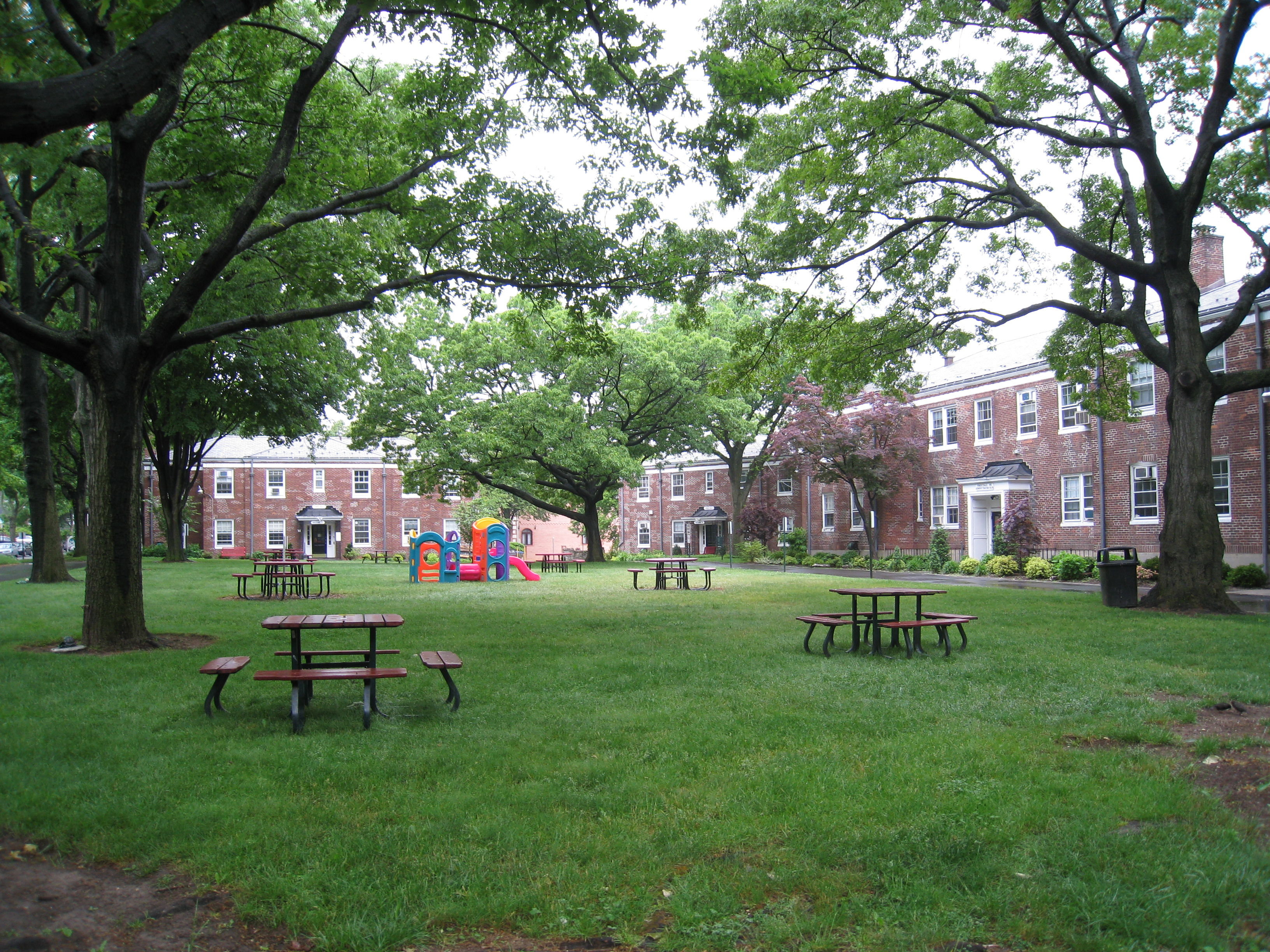 View of exterior of Forestdale, a foster care agency in Queens, New York.